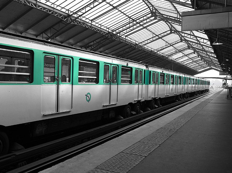 Metro at Chevaleret station (ligne 6), Paris, France